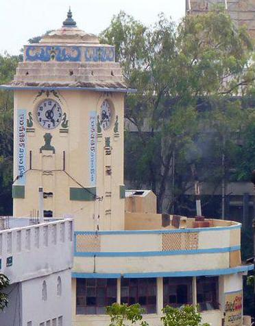 tower clock in kadapa 1 town station